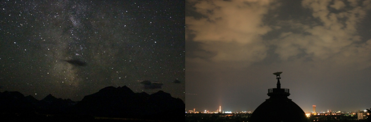 The combined image shows how light pollution affects the appearance of clouds at night. The photo at left, taken by Ray Stinson in Glacier National Park, shows that in pristine areas clouds appear black, because they block out starlight. The photo at right, taken by Christopher Kyba in Berlin, was published as a part of a light pollution research paper, and shows how clouds are lit from below by light pollution, dramatically brightening the night sky.